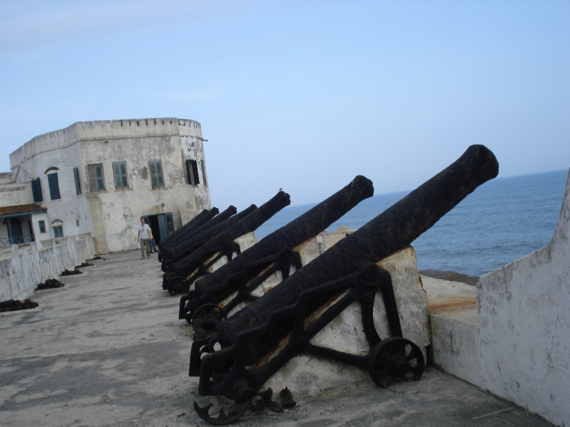 Cannons at Cape Coast Castle (Ghana) a structure used in the Trans Atlantic Slave Trade